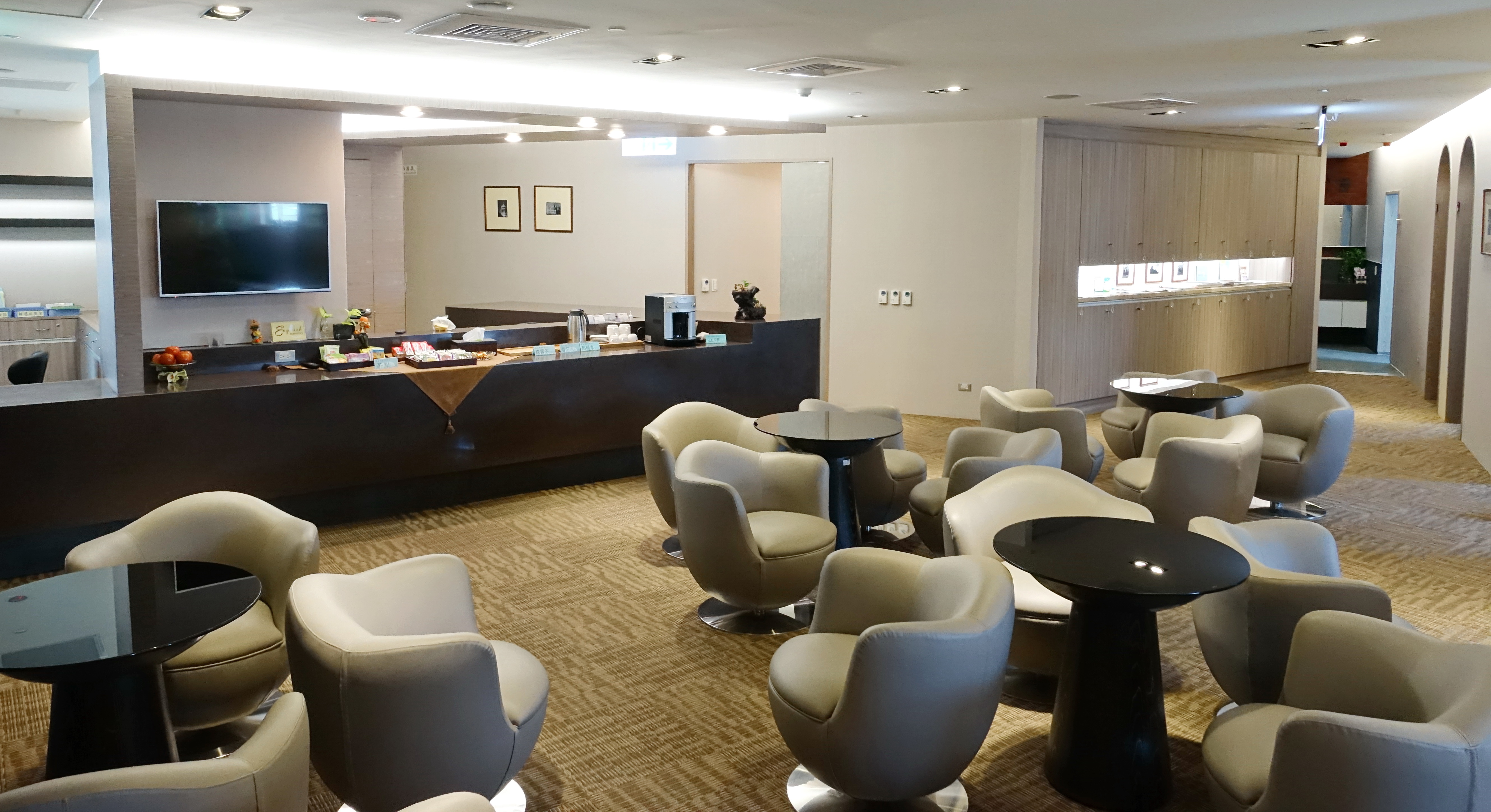 Health Management Center, Ditmanson Medical Foundation Chia-Yi Christian Hospital, Chiayi City, Taiwan.